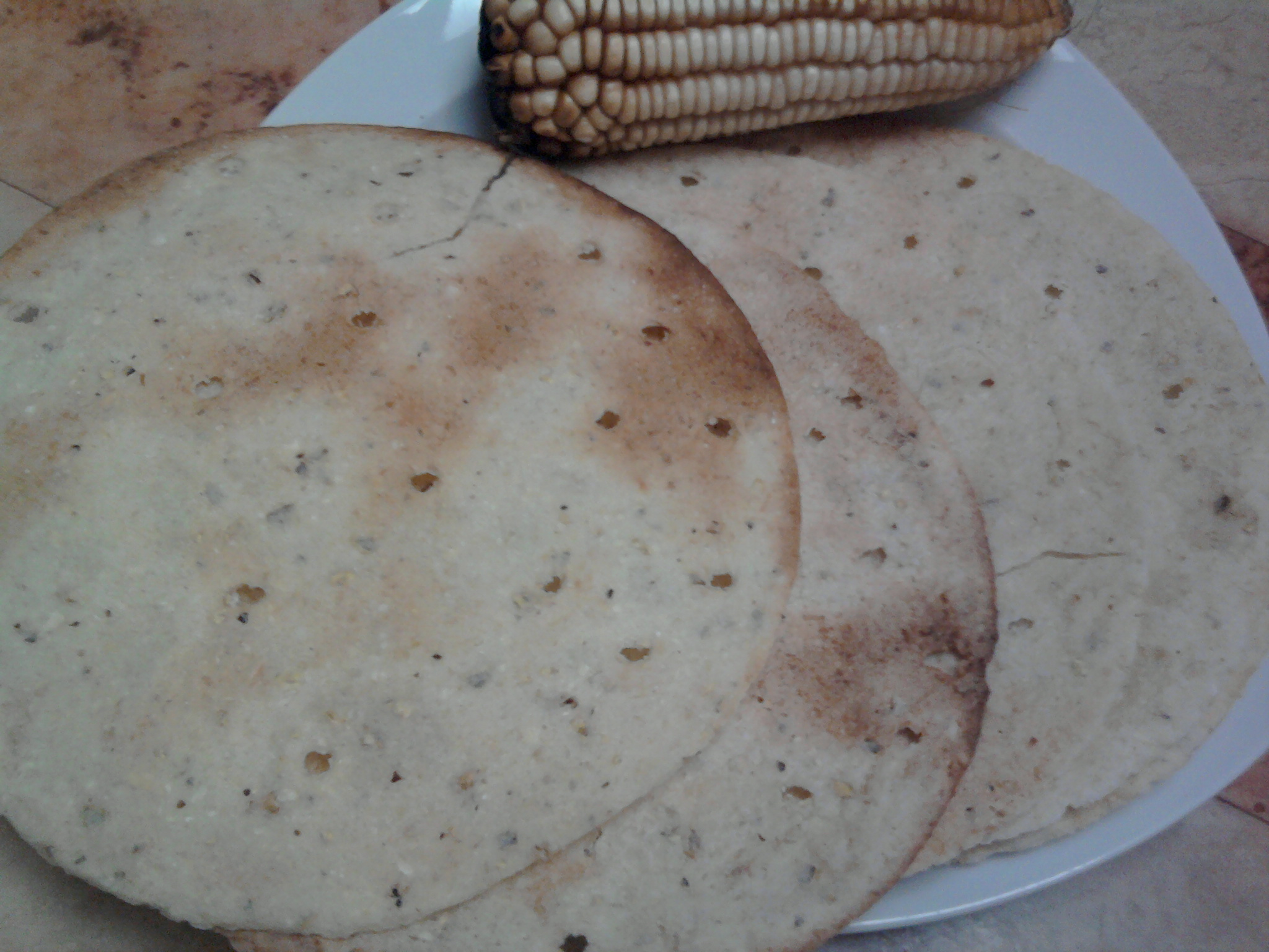 totopo is a food from the zapotec culture